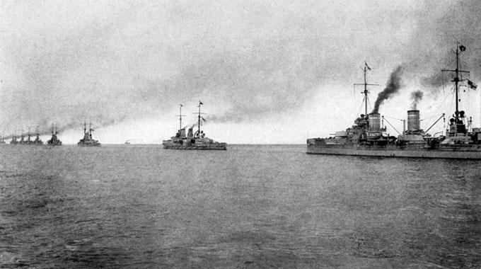 A battleship squadron of the German High Seas Fleet; the far right vessel is the battlecruiser SMS Von der Tann.